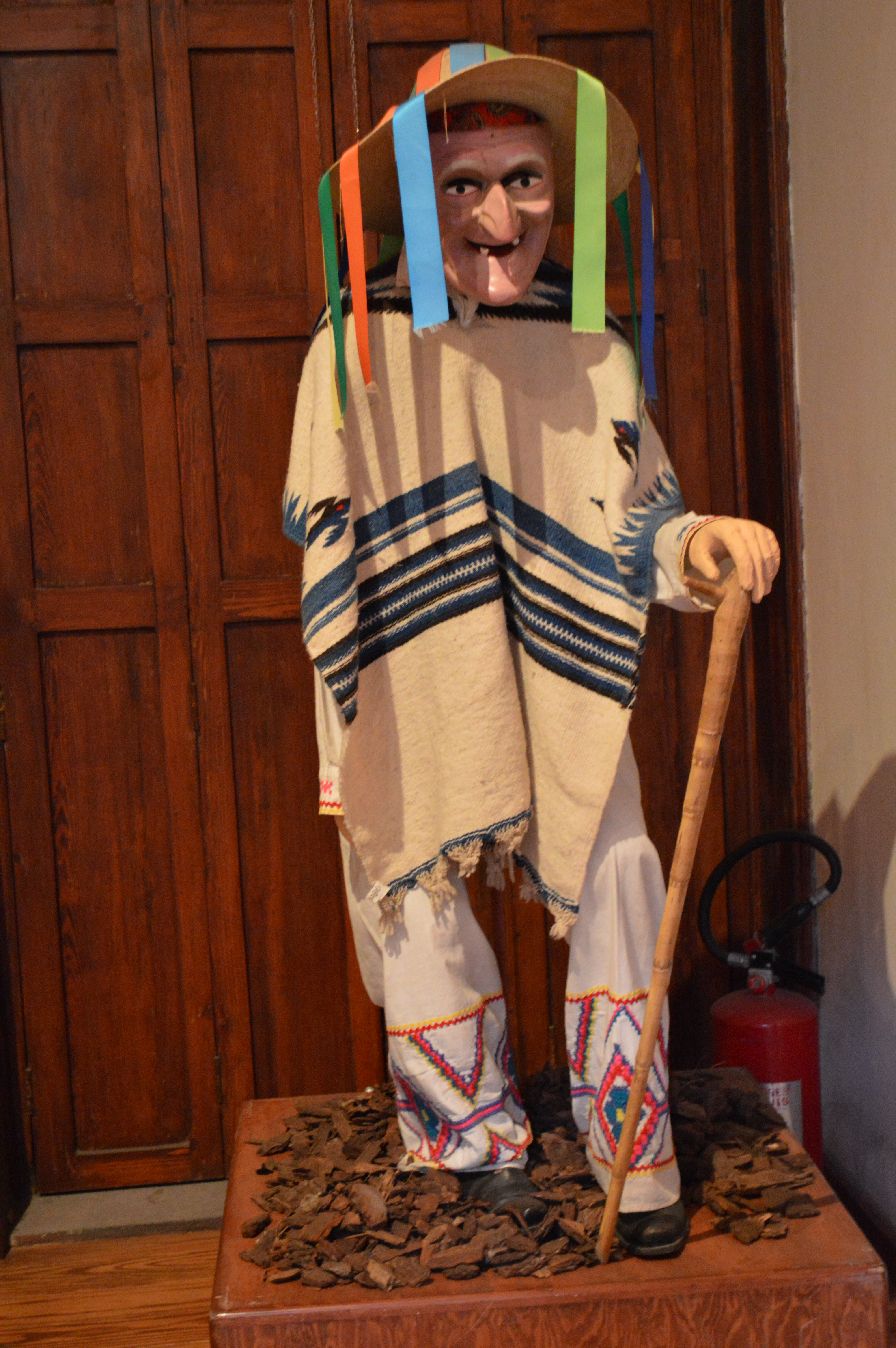 Mannequin of a Viejitos dancer at the Museo Nacional de la Máscara in San Luis Potosí, Mexico